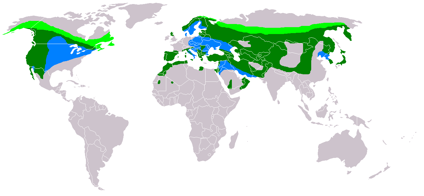 Distribution of Aquila chrysaetos nesting area resident all year wintering area